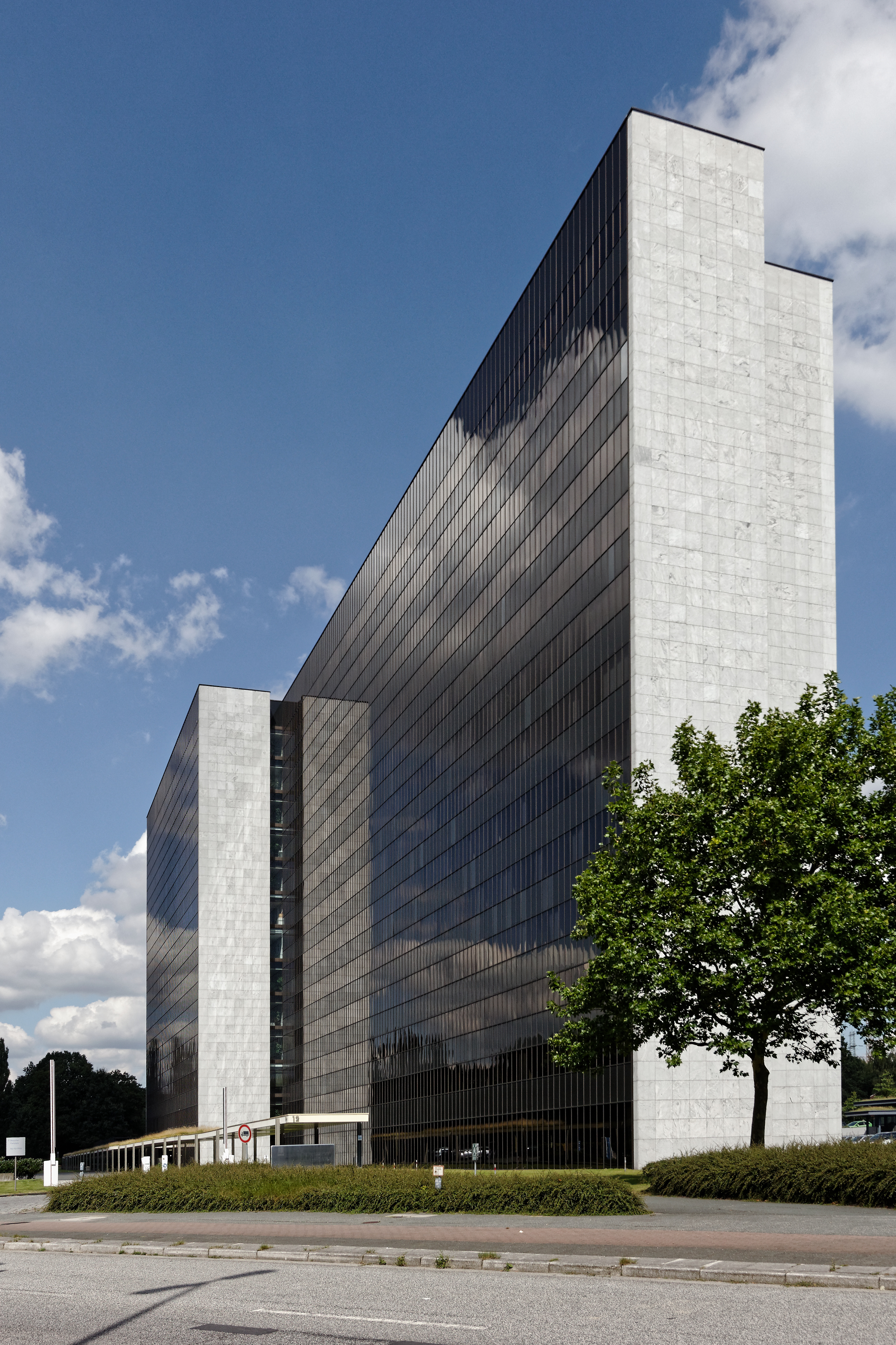 Hamburg-Winterhude, City Nord, office building Überseering 12, former HEW-building, at the time of imaging used by Vattenfall Germany